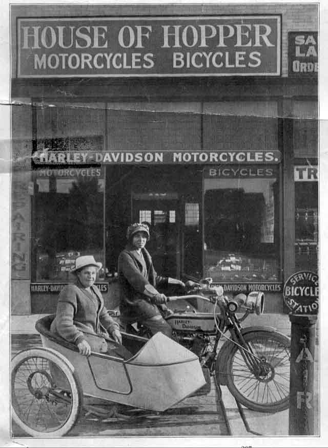 Avis and Effie Hotchkiss in Salt Lake City, UT, in 1915. On their pioneering transcontinental motorcycle ride.